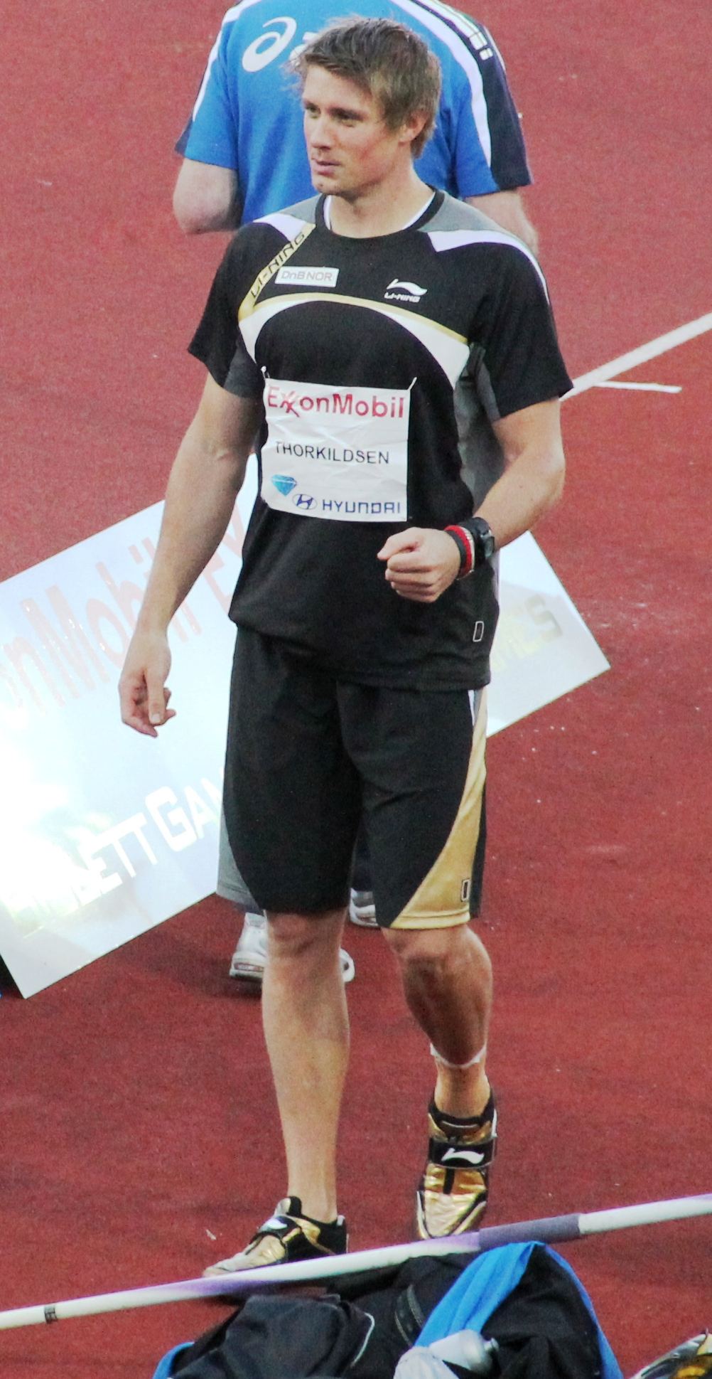 Andreas Thorkildsen after his winning throw of 86.00 metres at the 2010 Bislett Games